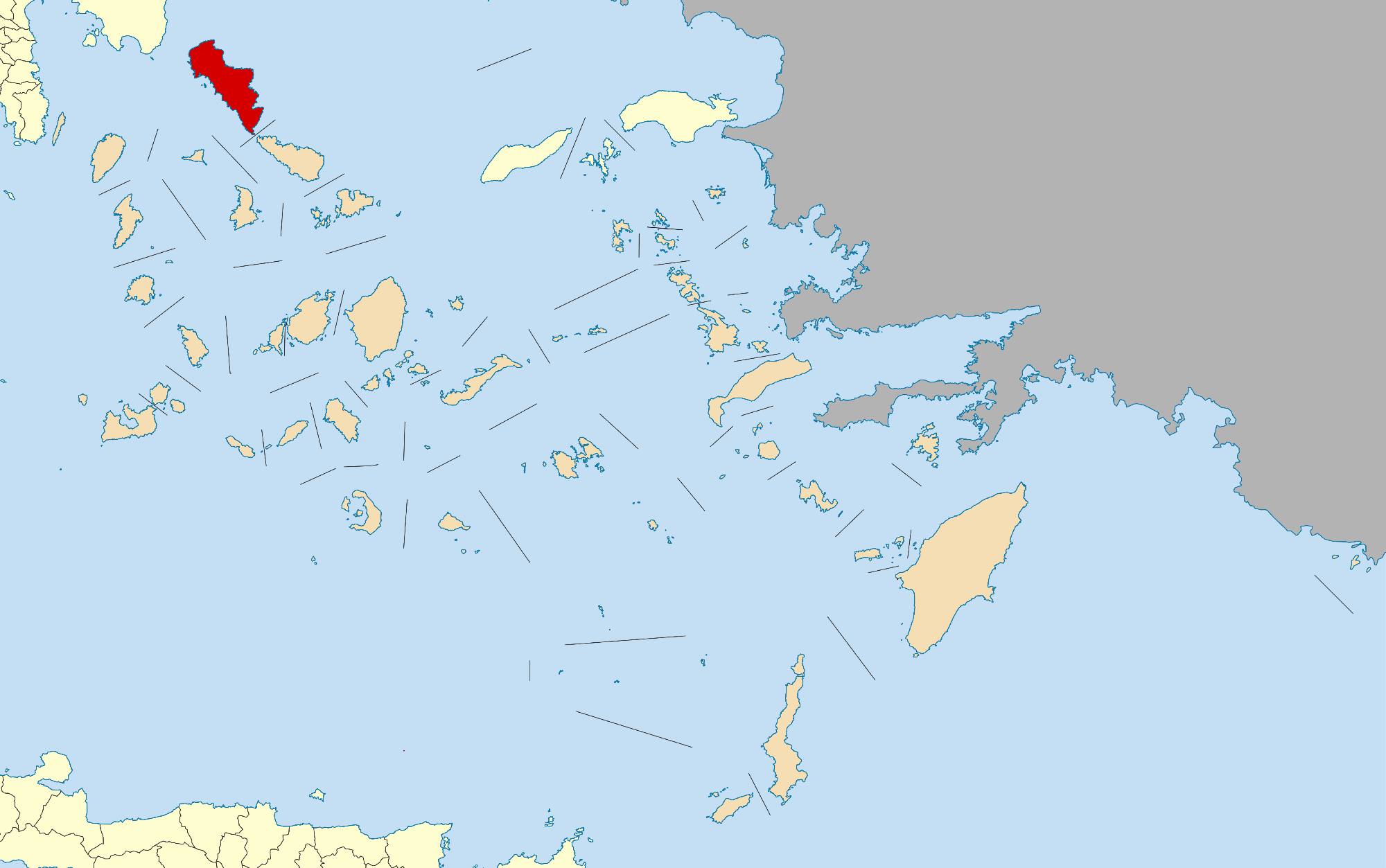 Locator map for Andros municipality in Greek region South Aegean (2011)